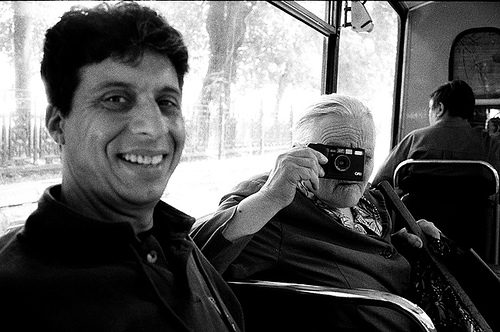 Gueorgui Pinkhassov in Moscow 1998